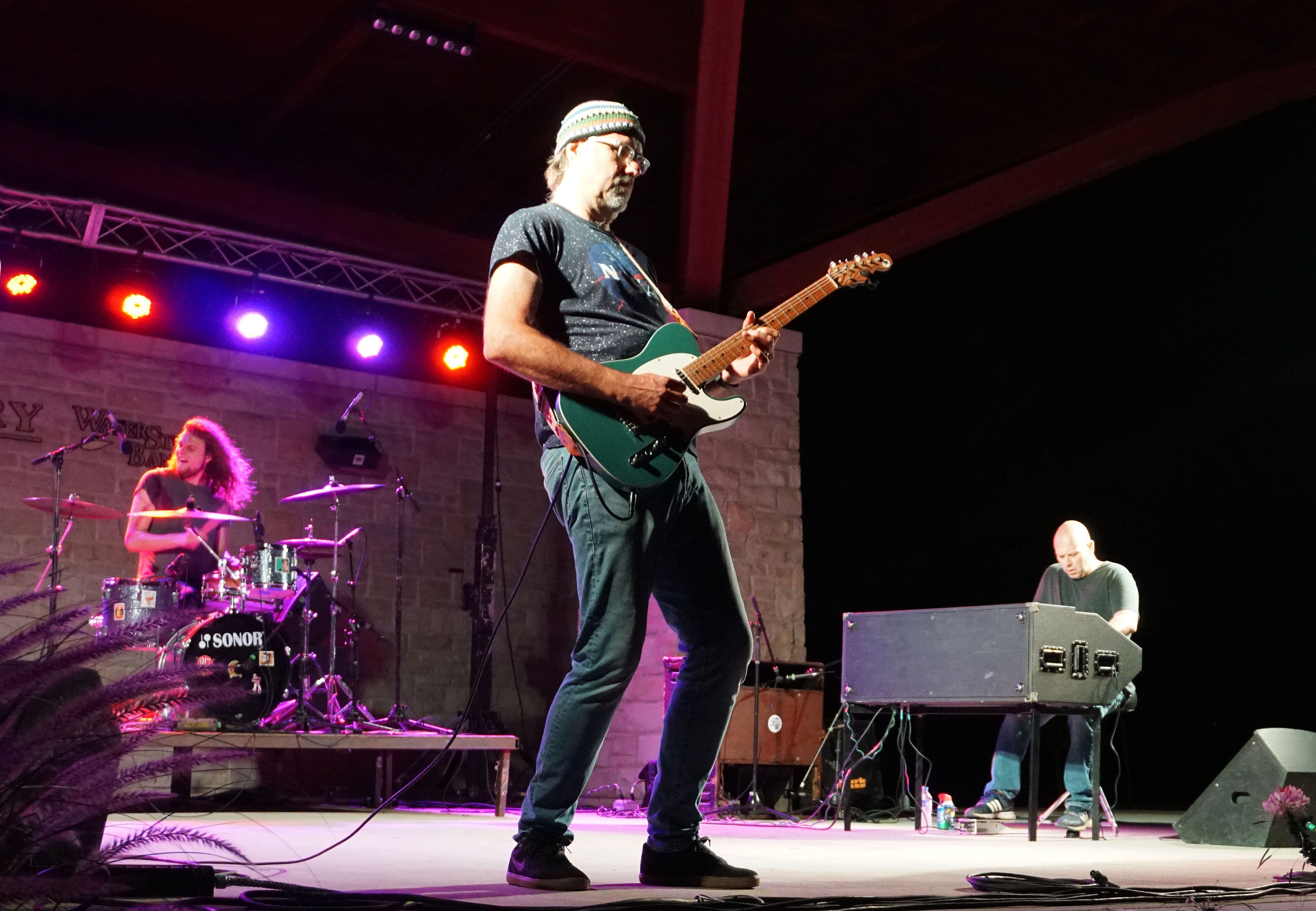 The Koch Marshall Trio playing live at Tosa Fest main stage September 8, 2018